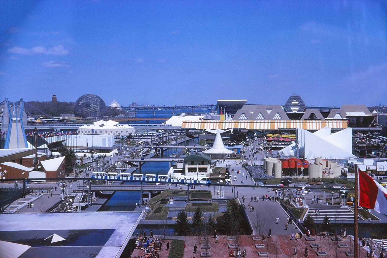 Expo 67, Notre-Dame Island, seen from the Katimavik of the pavilion of Canada; pavilions Indians of Canada, Greece, Israel, Expo-Express train, Jamaïca, Mauritius, USSR, thematic pavilion Man the Producer, Monaco, Yugoslavia, Haïti. Montréal, Québec, Canada.